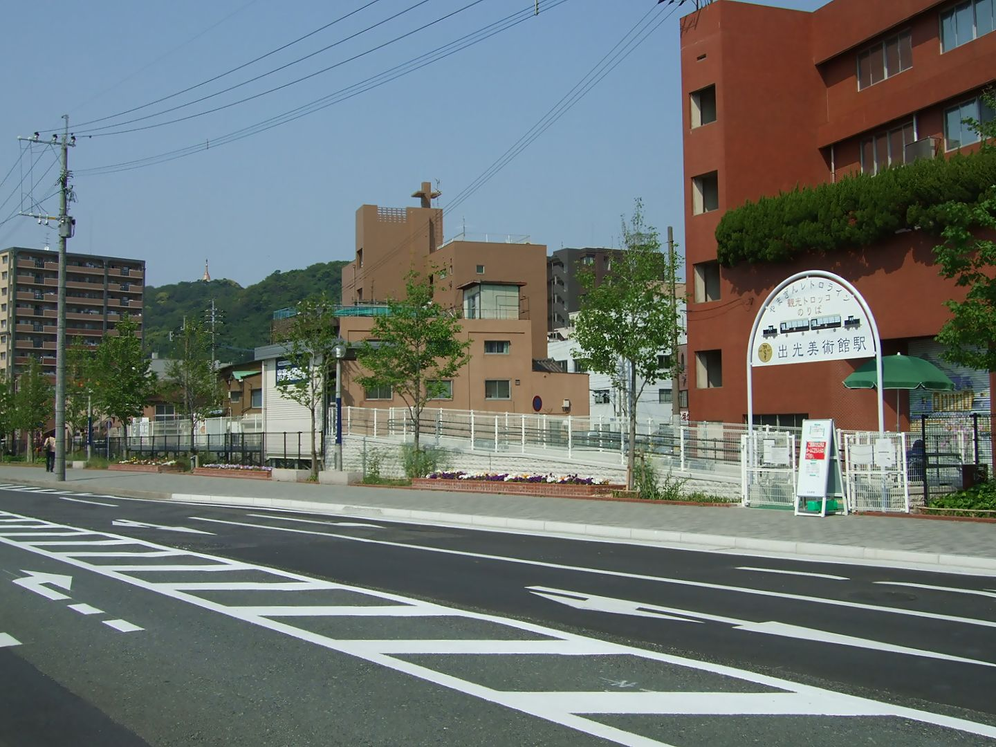 Idemitsu Bijutukan Station, Mojiko Retro Line, Heisei Chikuho Railway, Moji Ward, Kitakyushu City, Fukuoka Japan.